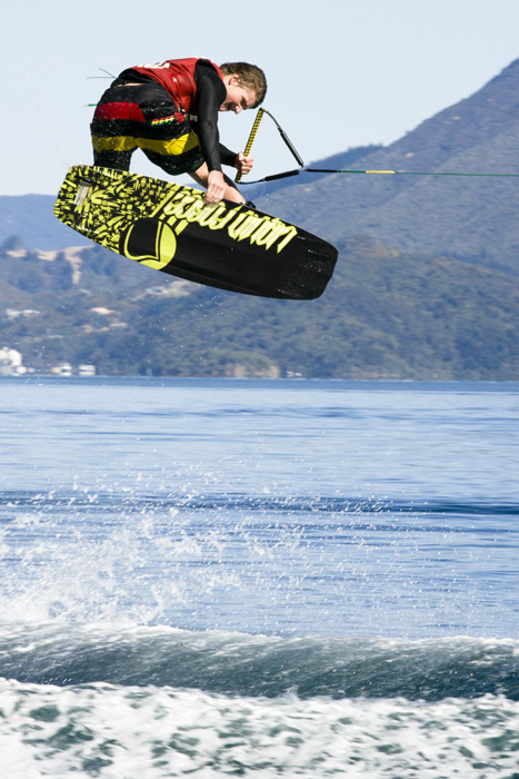 Guy Robinson - Wakeboarding Method grab